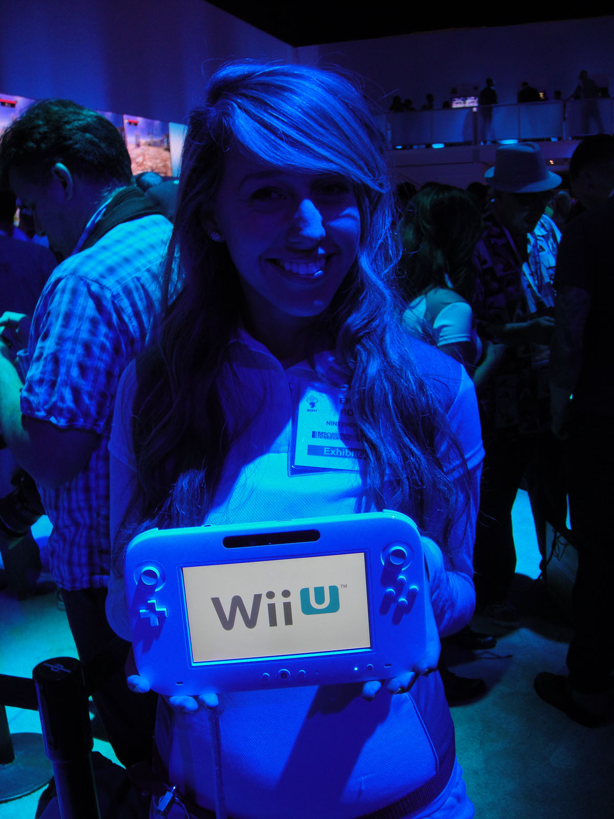 photo 2011 taken by Doug Kline If you're interested in higher resolution versions of my images, contact me via my profile page.